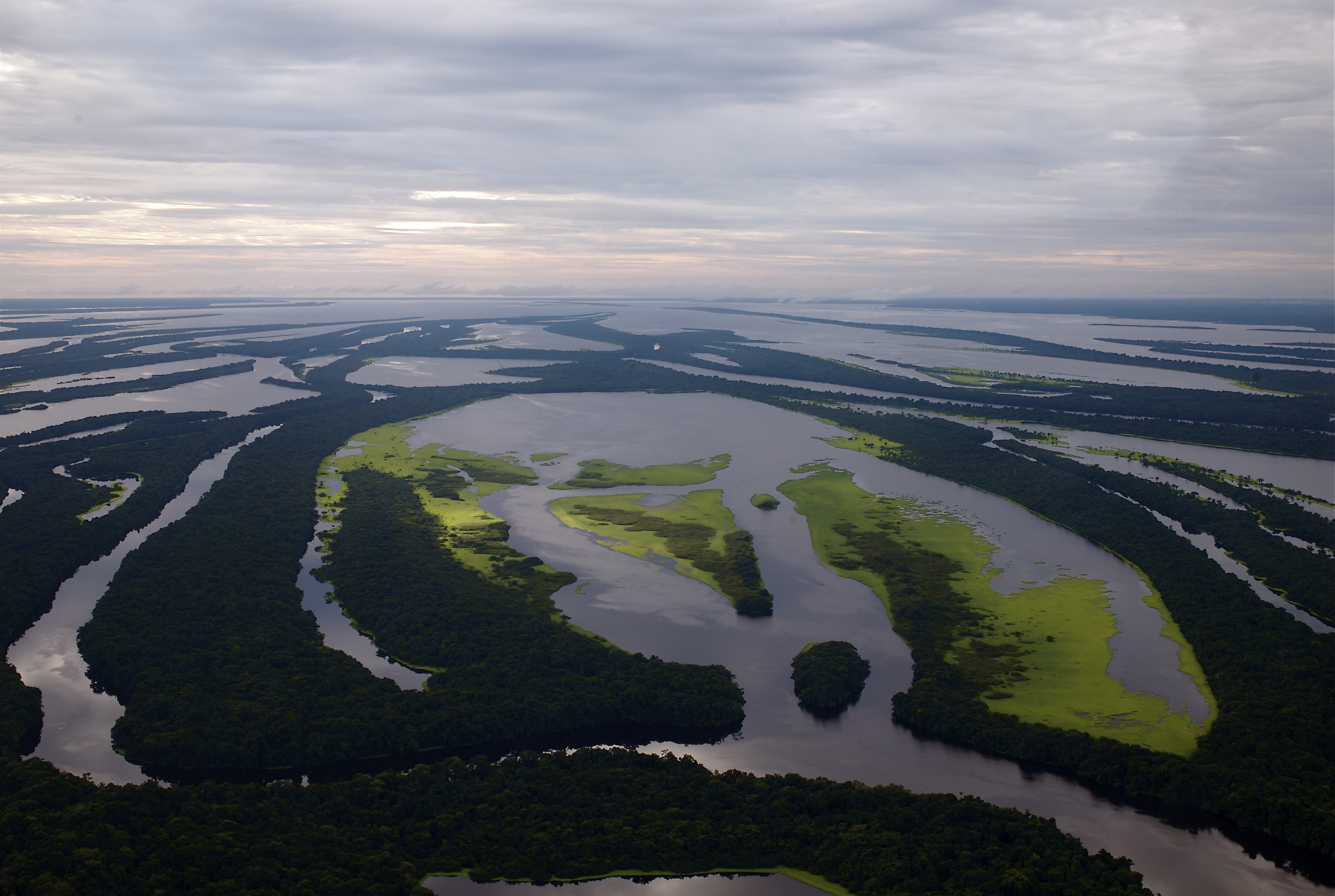 Jason and Capri's trip to Brazil 2007-2008